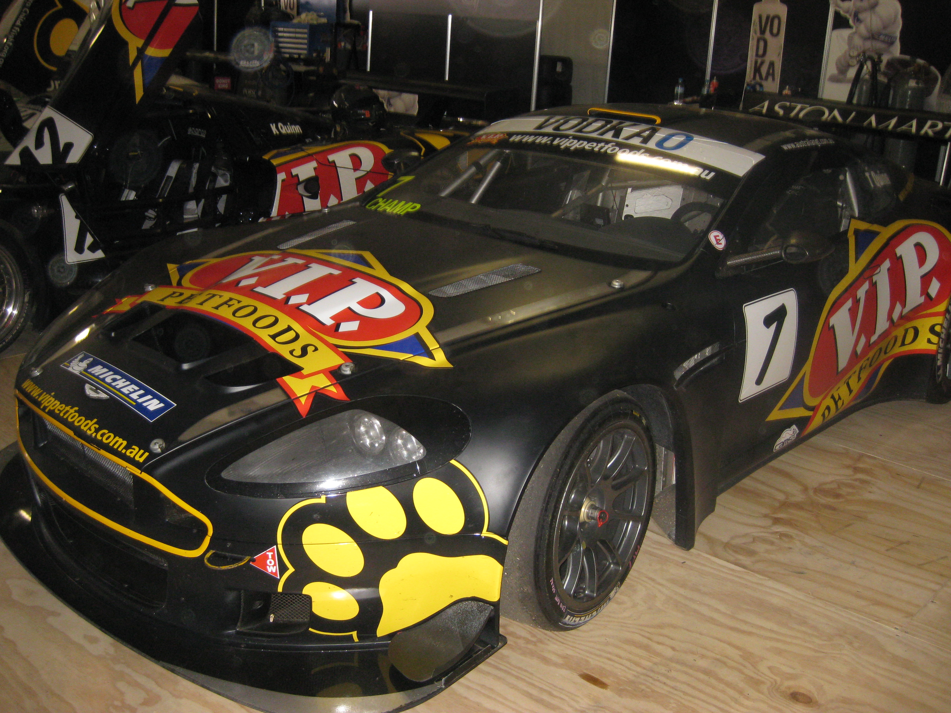 The Aston Martin DBRS9 of Tony Quinn at the Adelaide Parklands Circuit for the opening round of the 2011 Australian GT Championship